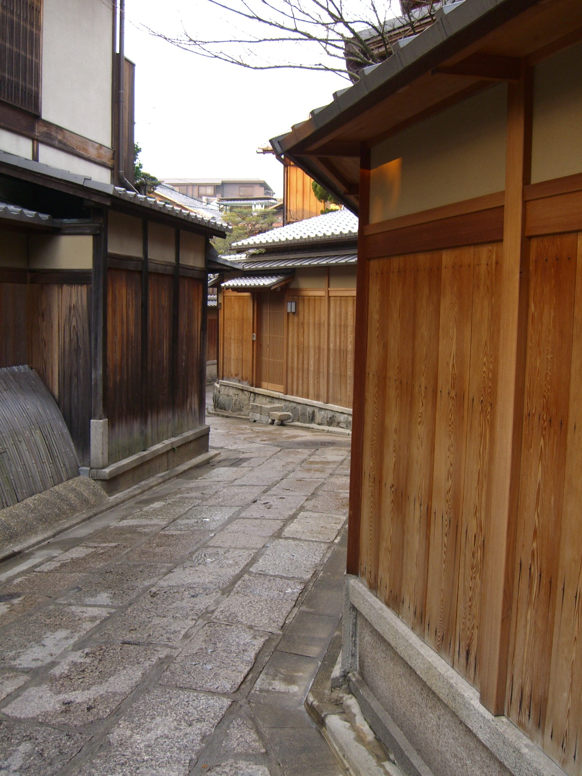 This is the picture of "a street in Sannneizaka preservation District near Gion, Kyoto,Japan",taken by uploader himself